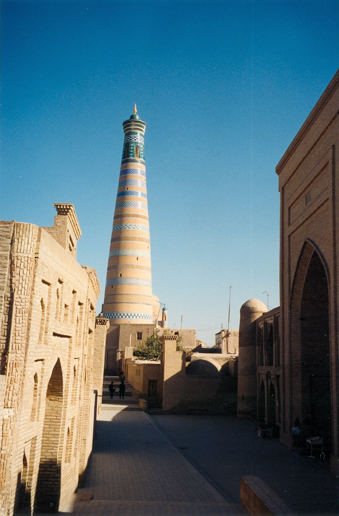 A street in the Old City of Khiva, Uzbekistan.